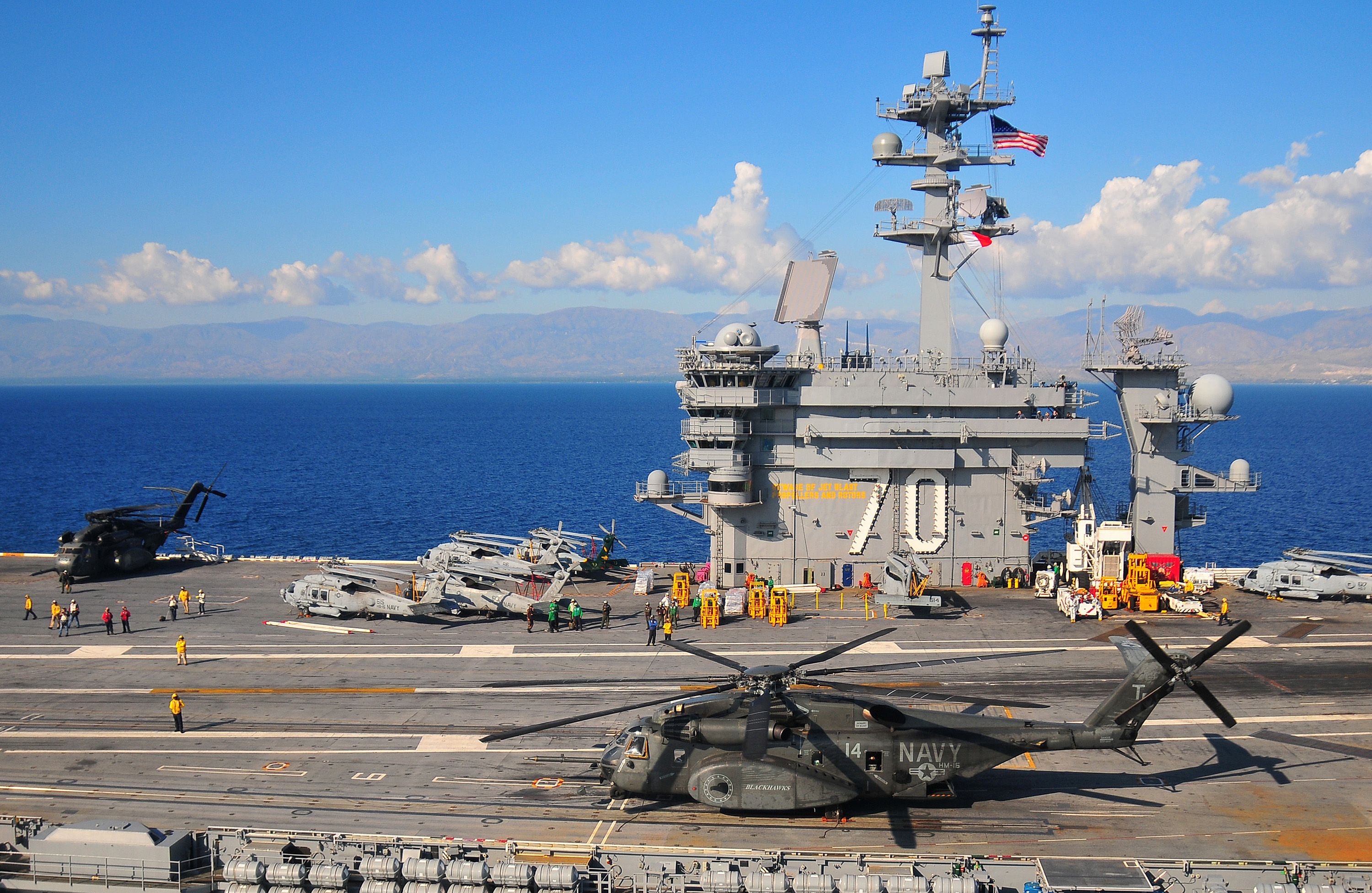 PORT-AU-PRINCE, Haiti (Jan. 15, 2010) The Nimitz-class aircraft carrier USS Carl Vinson (CVN 70) shown operating off the coast of Haiti. Carl Vinson and Carrier Air Wing (CVW) 17 are conducting humanitarian and disaster relief operations in Haiti in response to the Jan. 12, 2010 earthquake disaster. (U.S. Navy photo by Mass Communication Specialist 2nd Class Daniel Barker/Released)